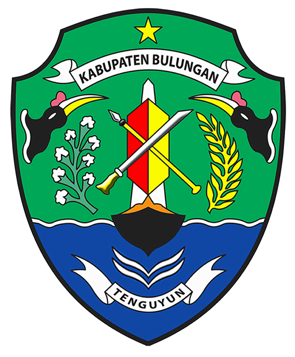 Lambang (Coat of Arms) of Kabupaten (Regency) Bulungan, Provinsi Kalimantan Timur (East Kalimantan Province, on island Borneo/Kalimantan in id), Indonesia